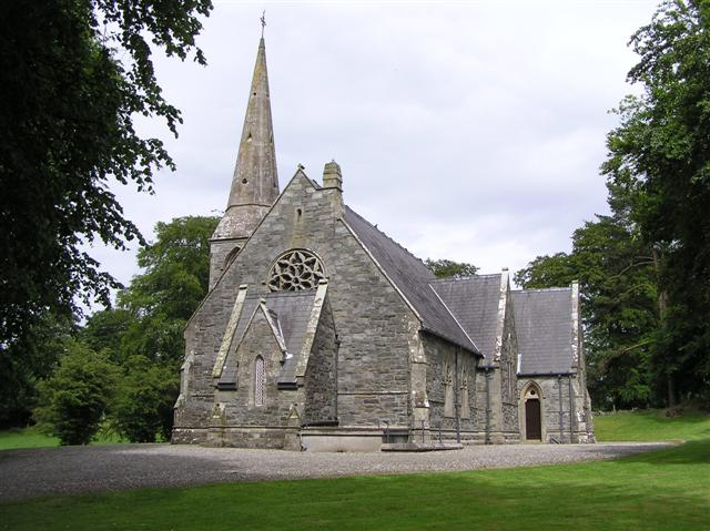 Christ Church Presbyterian Church, Urney. It is located on the Strabane side of Clady.